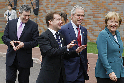 TOYAKO-ONSEN, HOKKAIDO, JAPAN. Russian President Dmitry Medvedev with U.S. President George W. Bush and German Federal Chancellor Angela Merkel. In the background, British Prime Minister Gordon Brown and French President Nicolas Sarkozy.